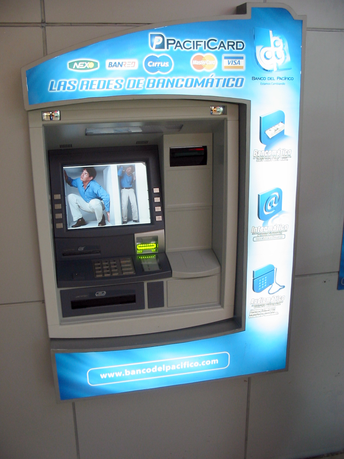 Diebold Opteva 760 - Advanced-function, Through-the-wall Walk-up ATM (Automatic Teller Machine).